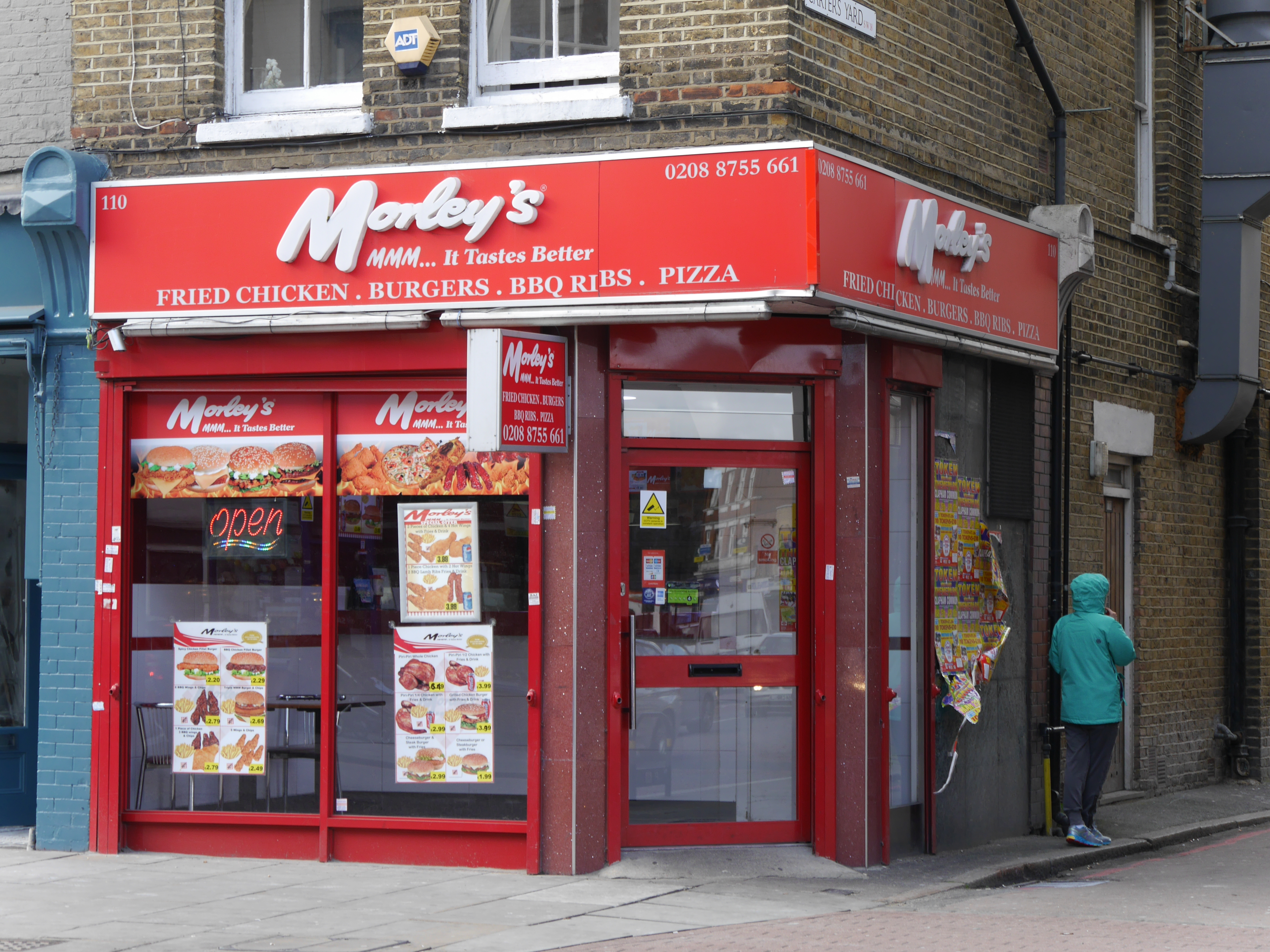 Wandsworth High Street